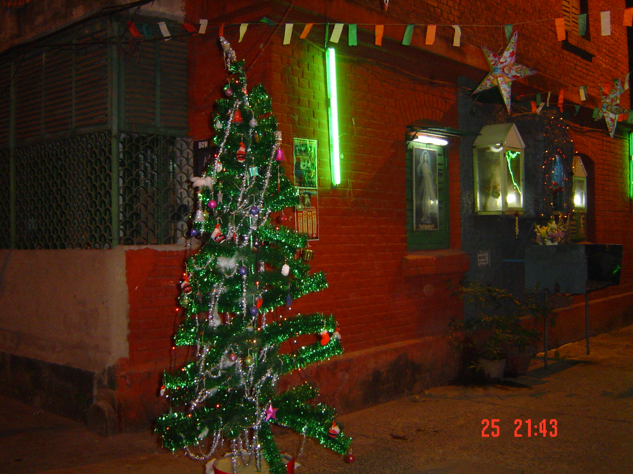 Bow barracks on the eve of Christmas